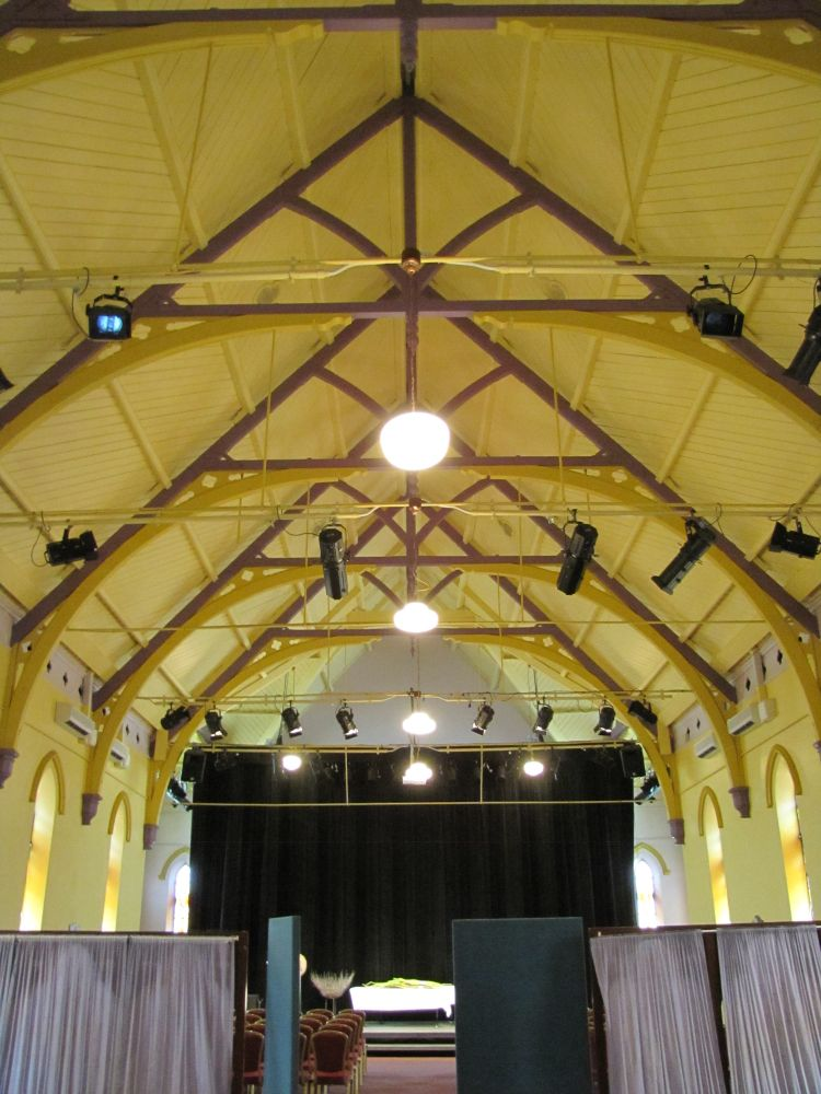 Wesley Uniting Church (2012) internal view